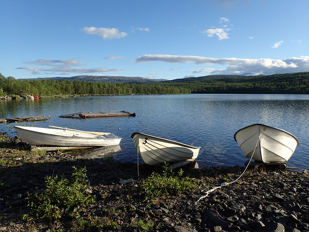 Boats by lake Stuorsavon/Stuorsavvun in Vuoggatjålme, Arjeplog Municipality, Sweden.